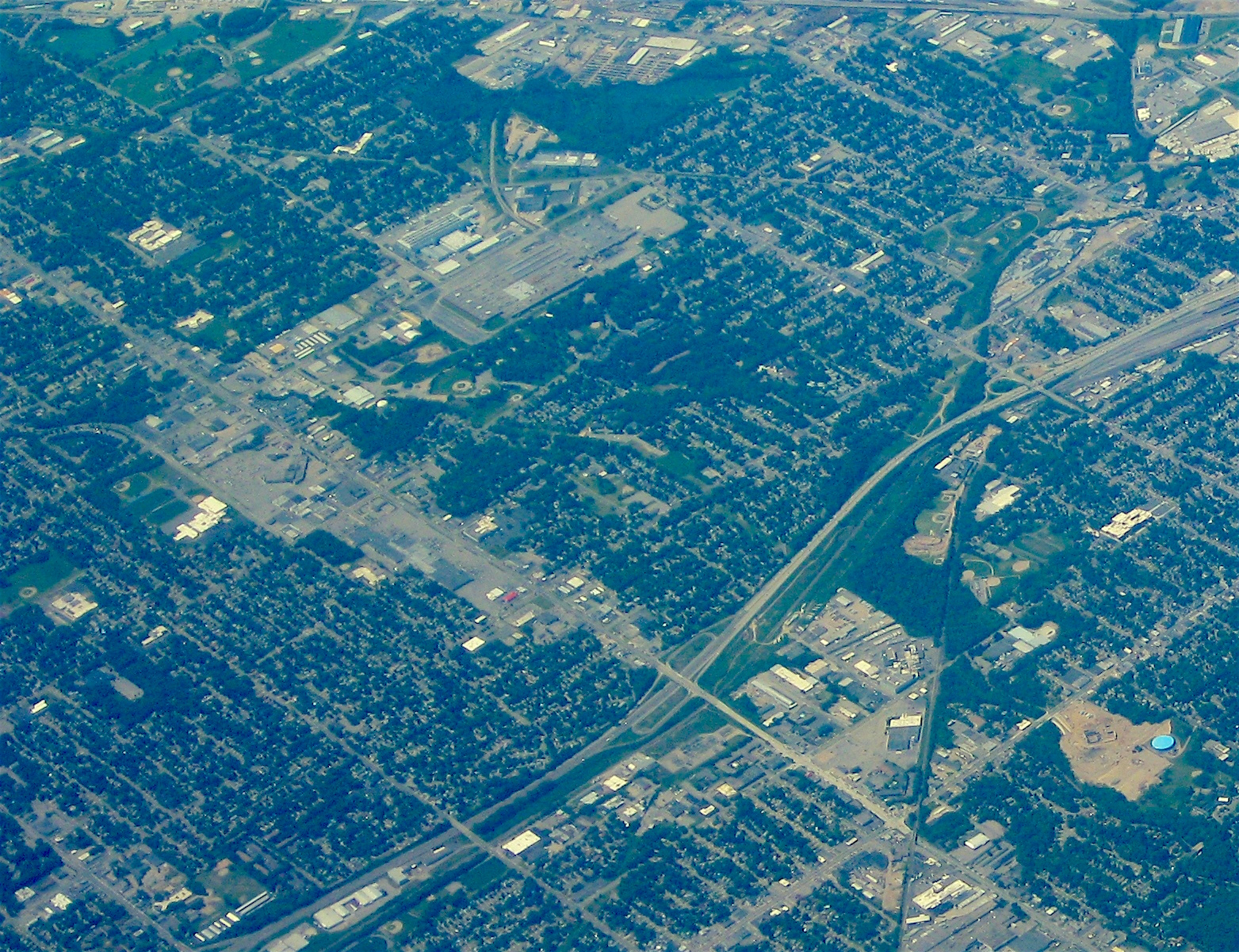 Aerial image of Wyoming, Michigan in 2009.